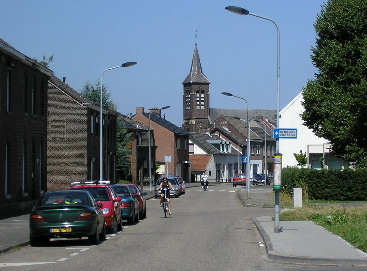 Limmel Maastricht, the Netherlands